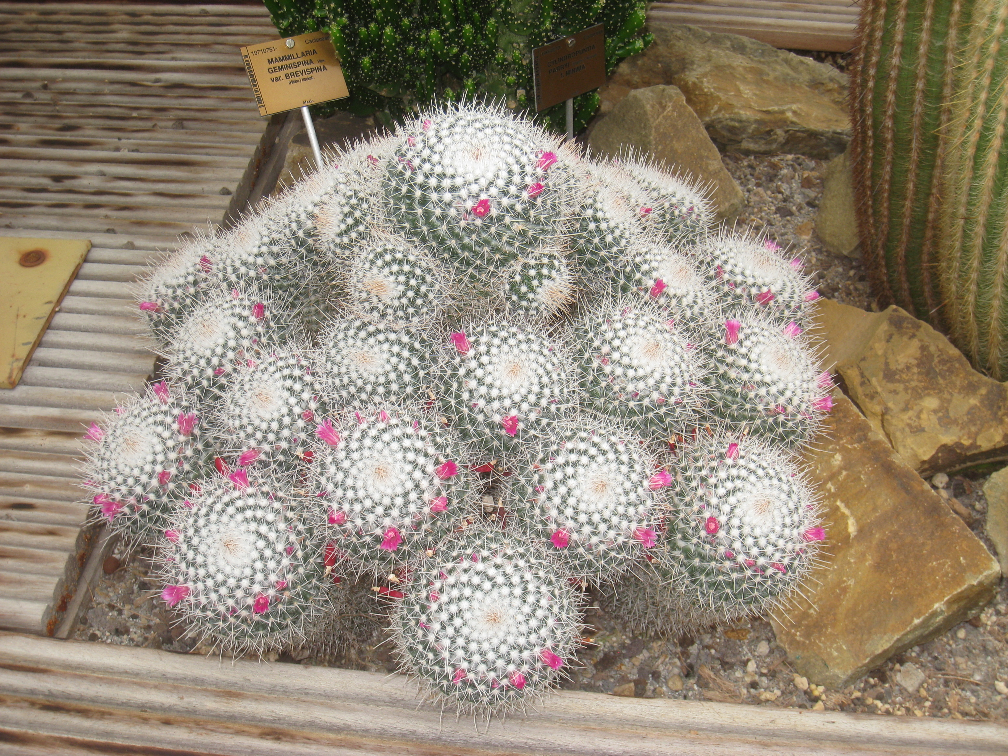 Mammillaria geminispina specimen in the National Botanic Garden of Belgium, Meise, just north of Brussels, Belgium.